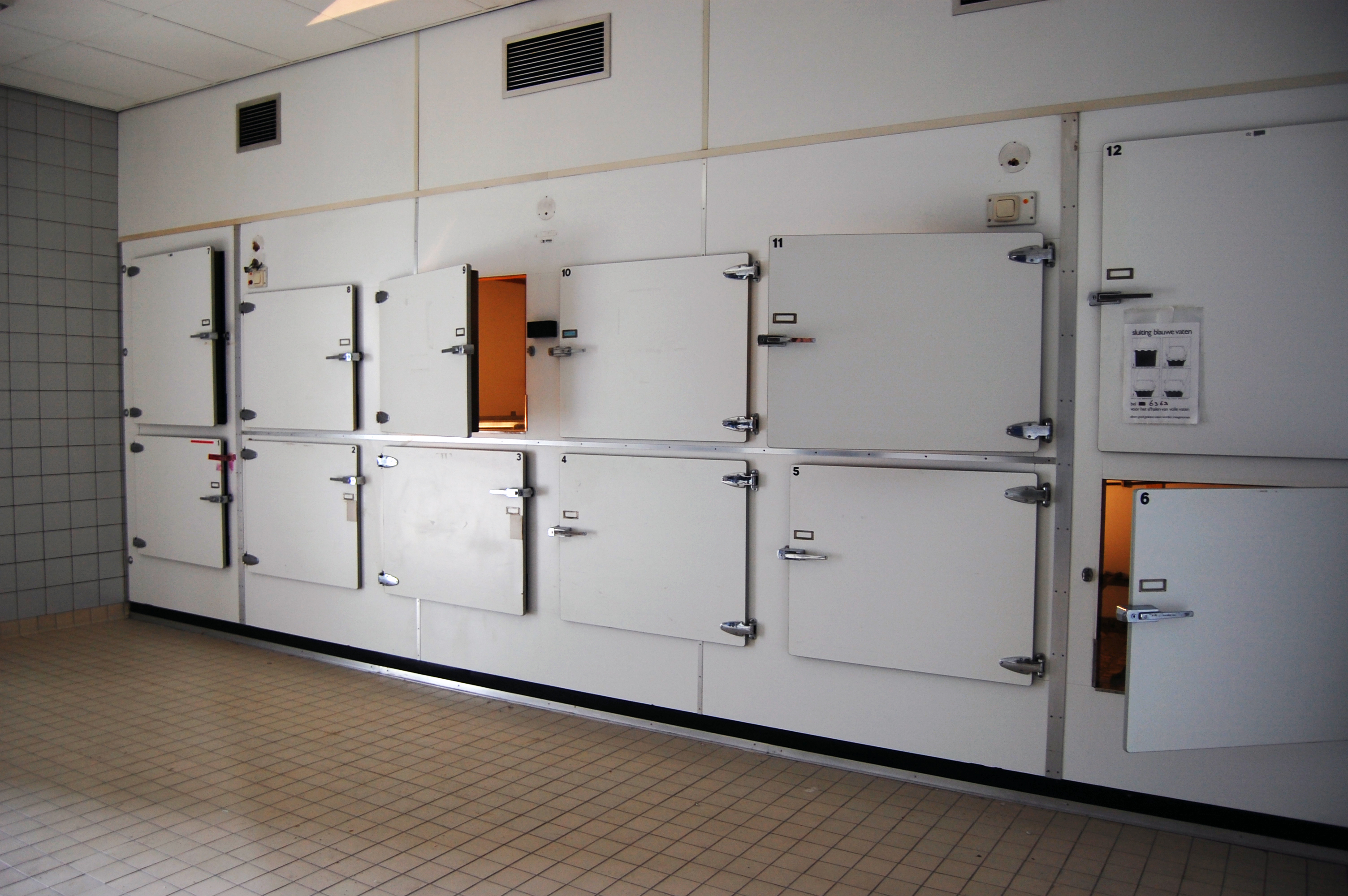 The morgue in a abandoned hospital in Deventer, Holland.